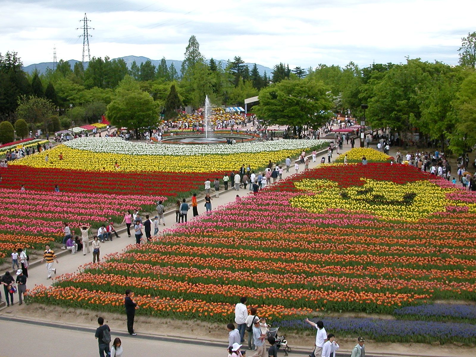 Tulip park, Tonami, Toyama, Japan